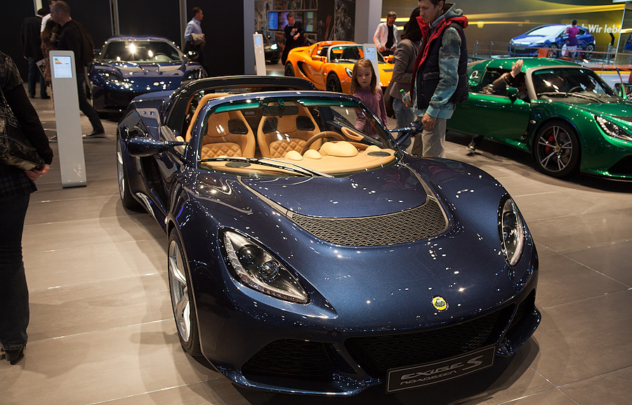 Motorshow Geneva 2012